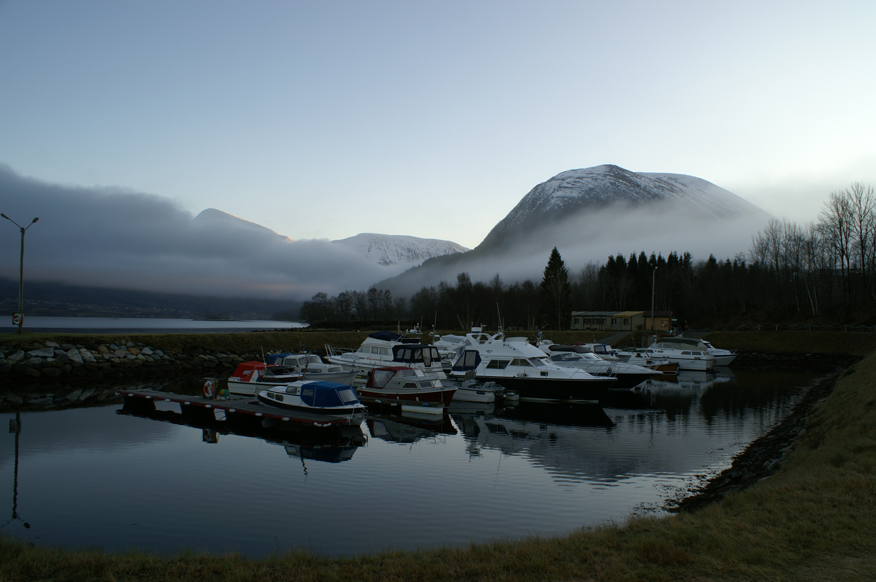 Fiksdal Harbour